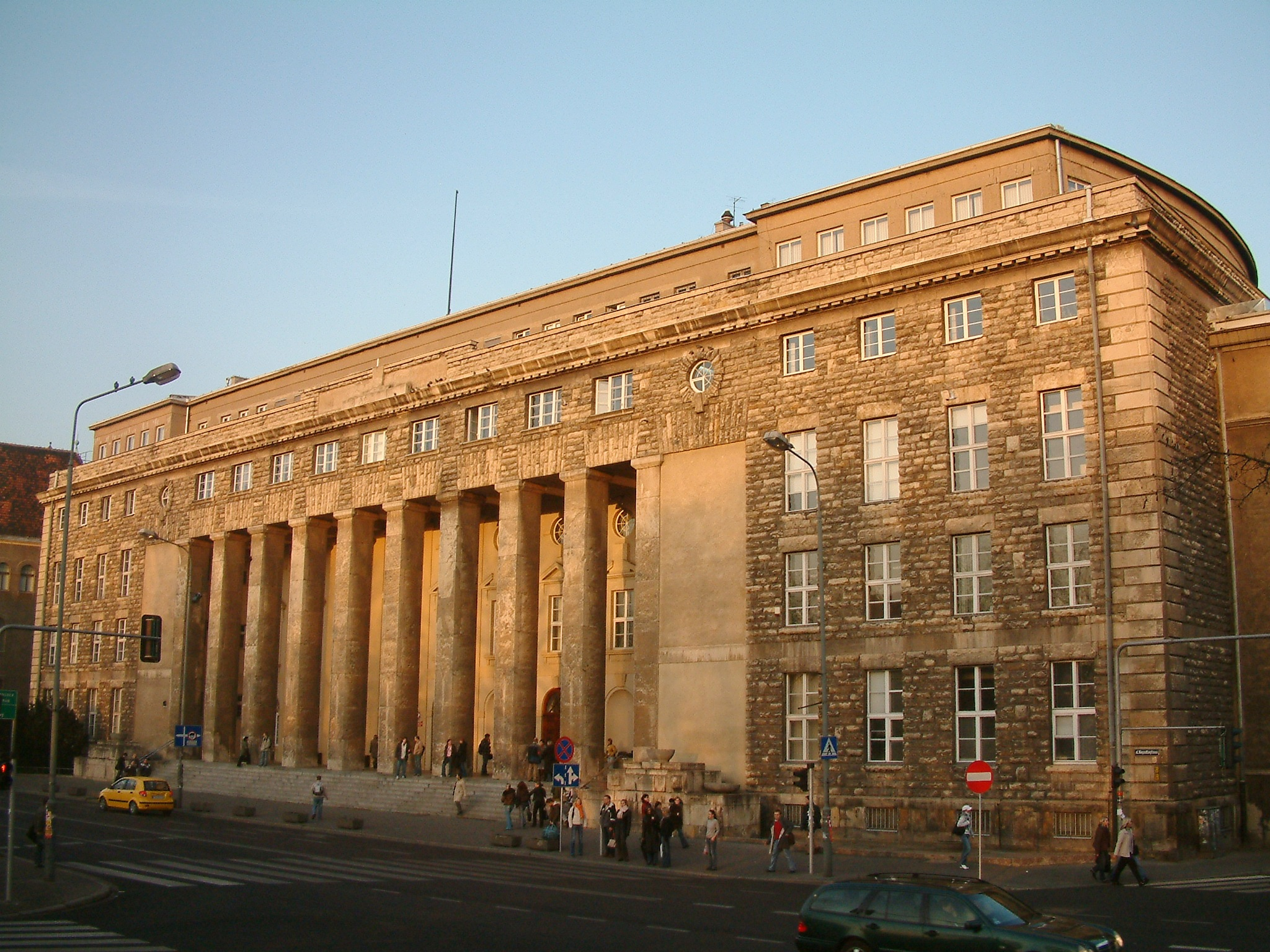 Building of Poznań University of Economics